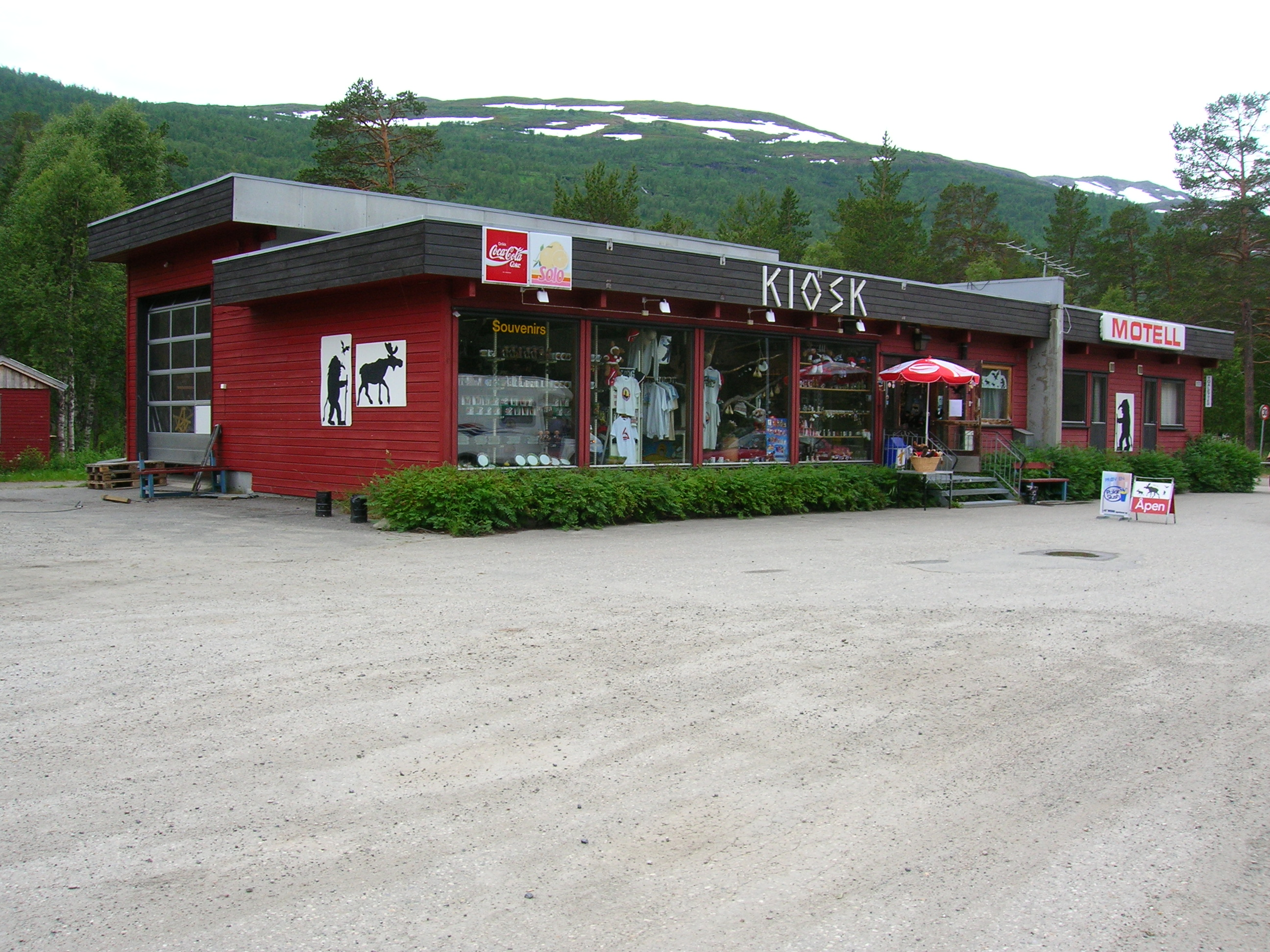 Krokstrand souvernir shop and motel Café in Krokstrand, Dunderlandsdal, at the foot south of Saltfjellet, in Rana municipality, county of Nordland, Norway, Photo July 12, 2007 with a Nikon Coolpix 5600 5,1 Megapixel camera.